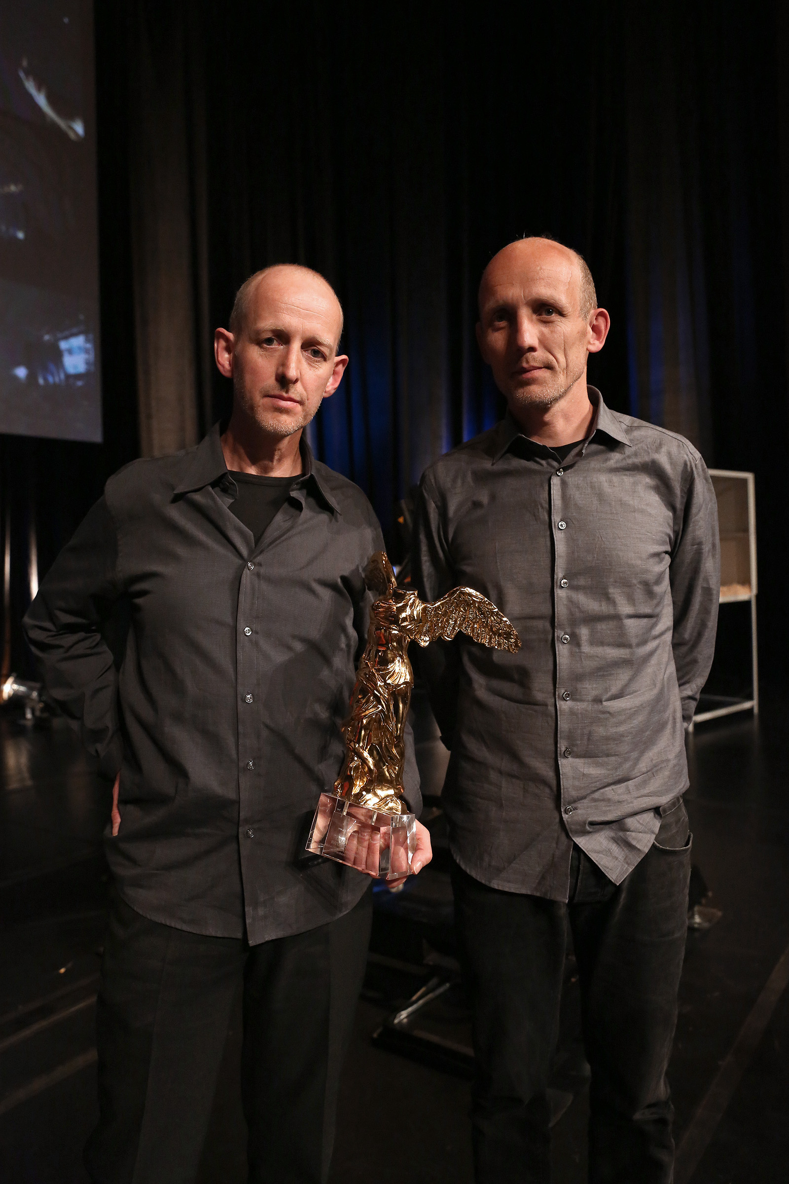 Brothers André and Michel Décosterd ("Pendulum Choir") with the Golden Nica of the Prix Ars Electronica 2013 in the category Interactive Art; Brucknerhaus, Linz, Upper Austria.